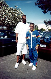 Professional basketball player Billy Owens (left) posing with a fan after a 2002 Summer Pro League game (in which he played) at The Pyramid in Long Beach, California.